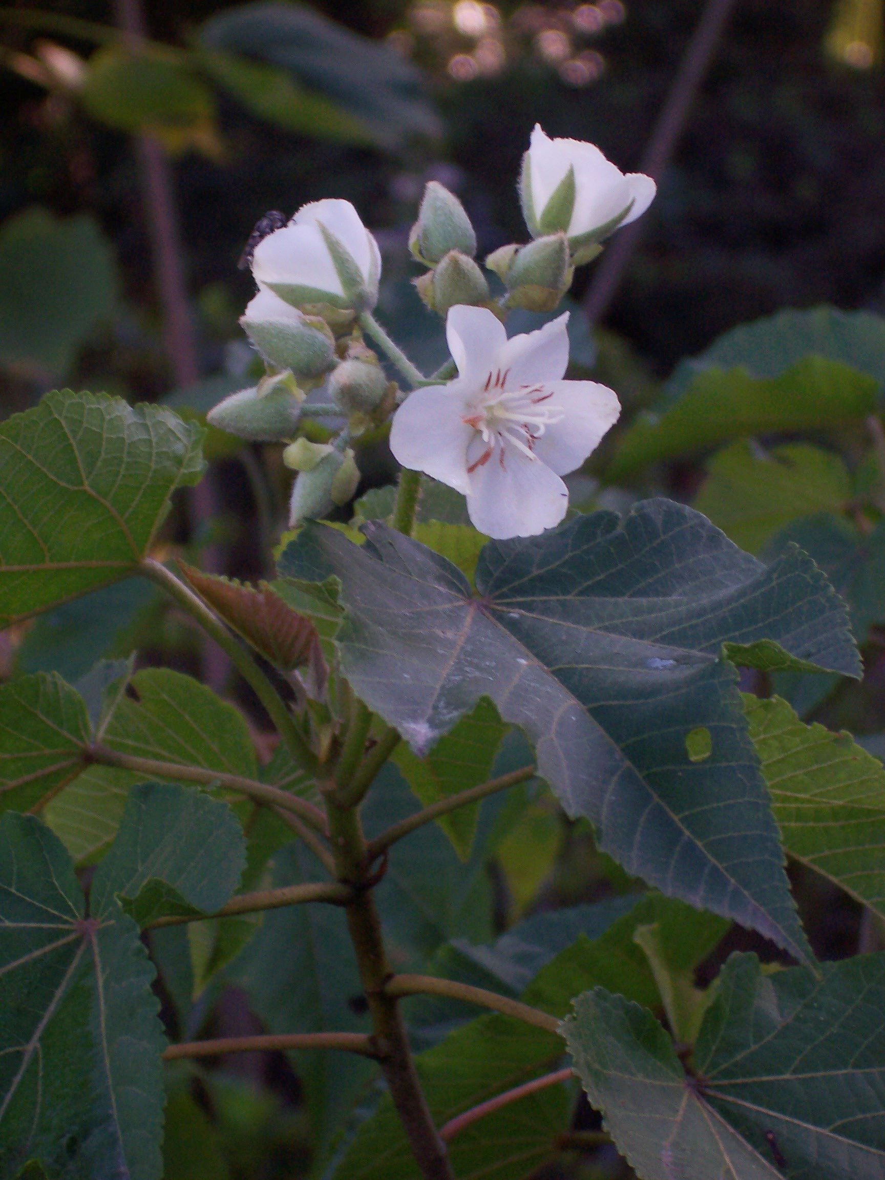 Dombeya acutangula flowers (Réunion island)